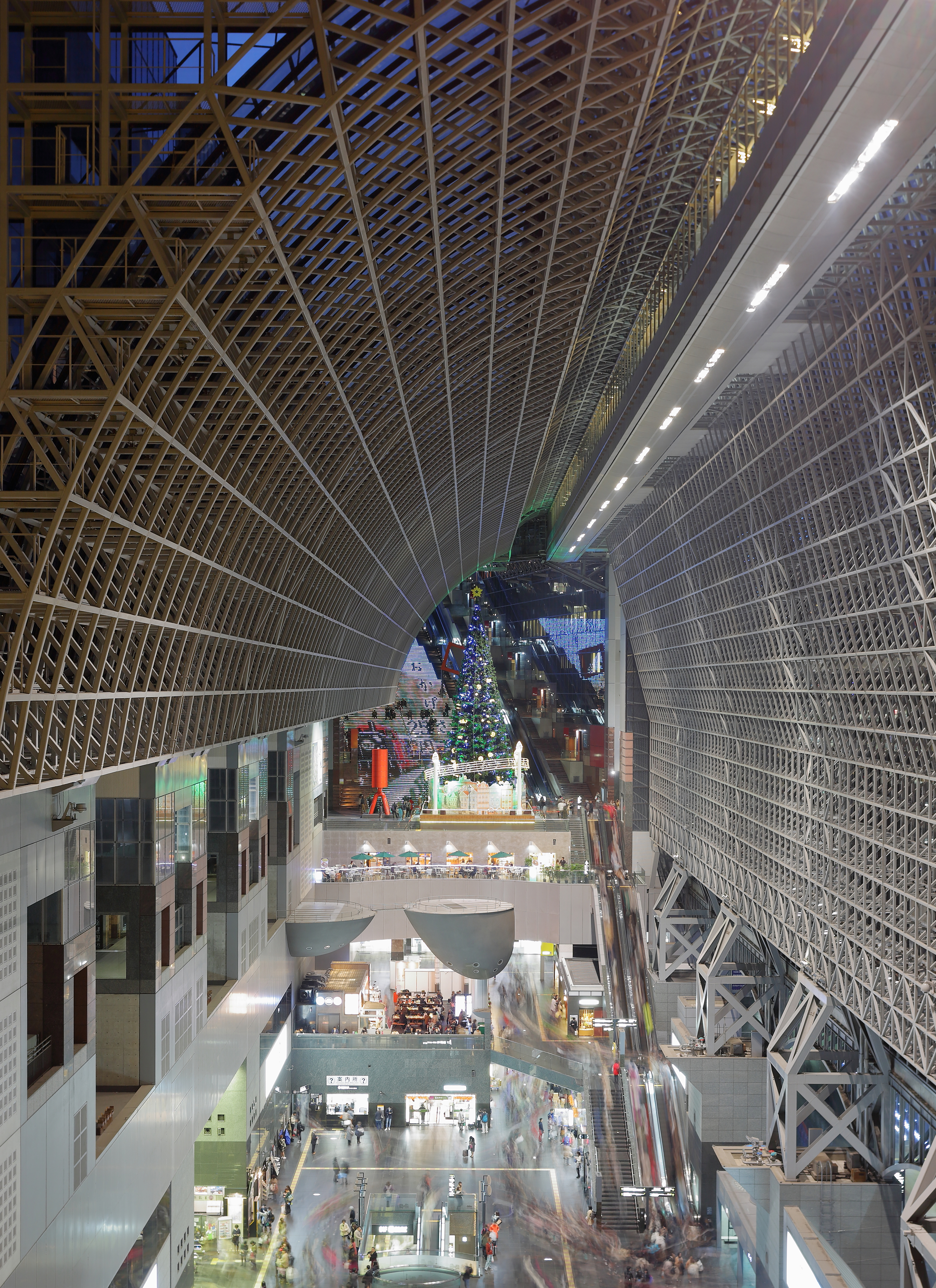 Kyōto Station, built in 1997, as seen from the eastern side of the main hall.